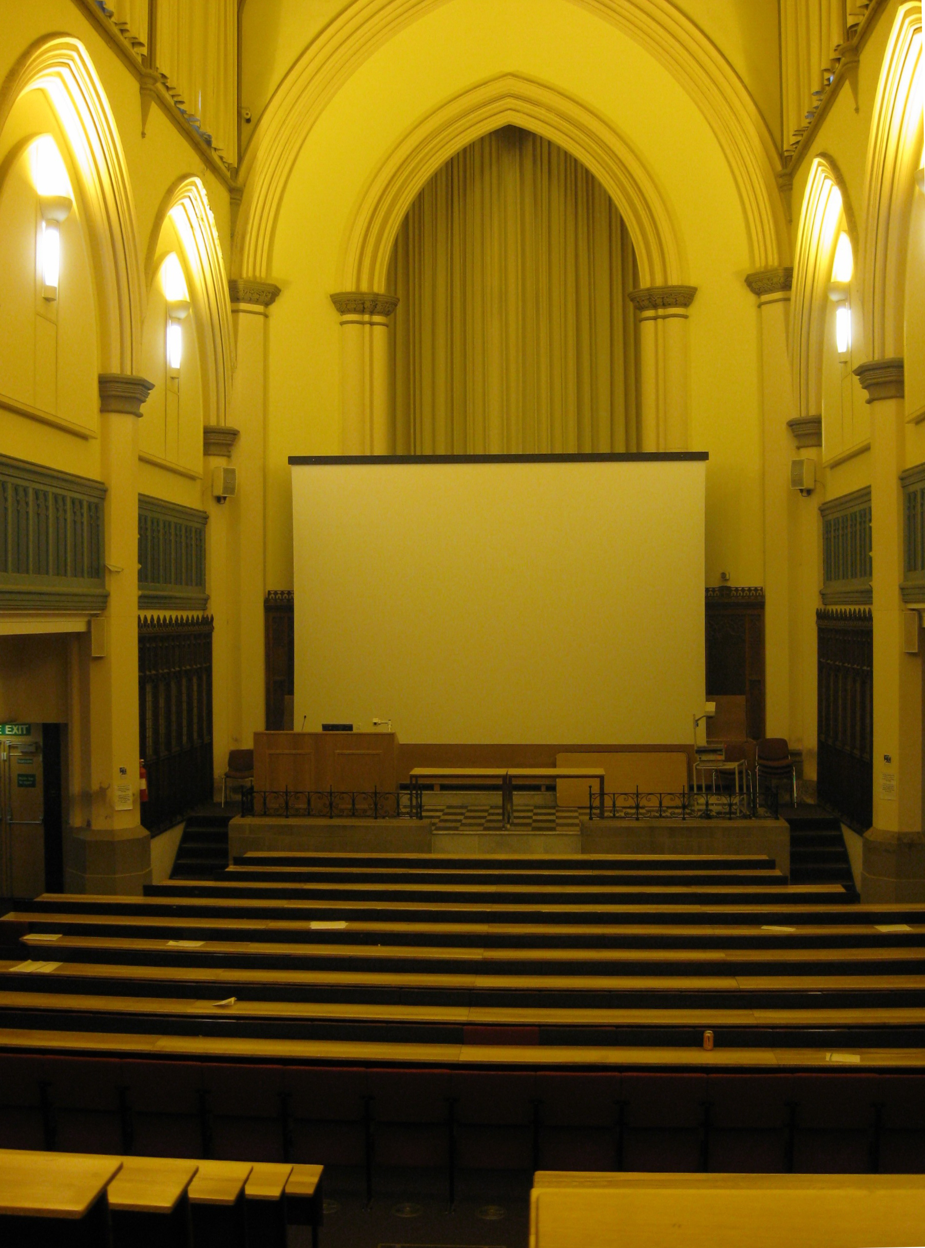 St George's (former) church, now University of Sheffield. Interior.